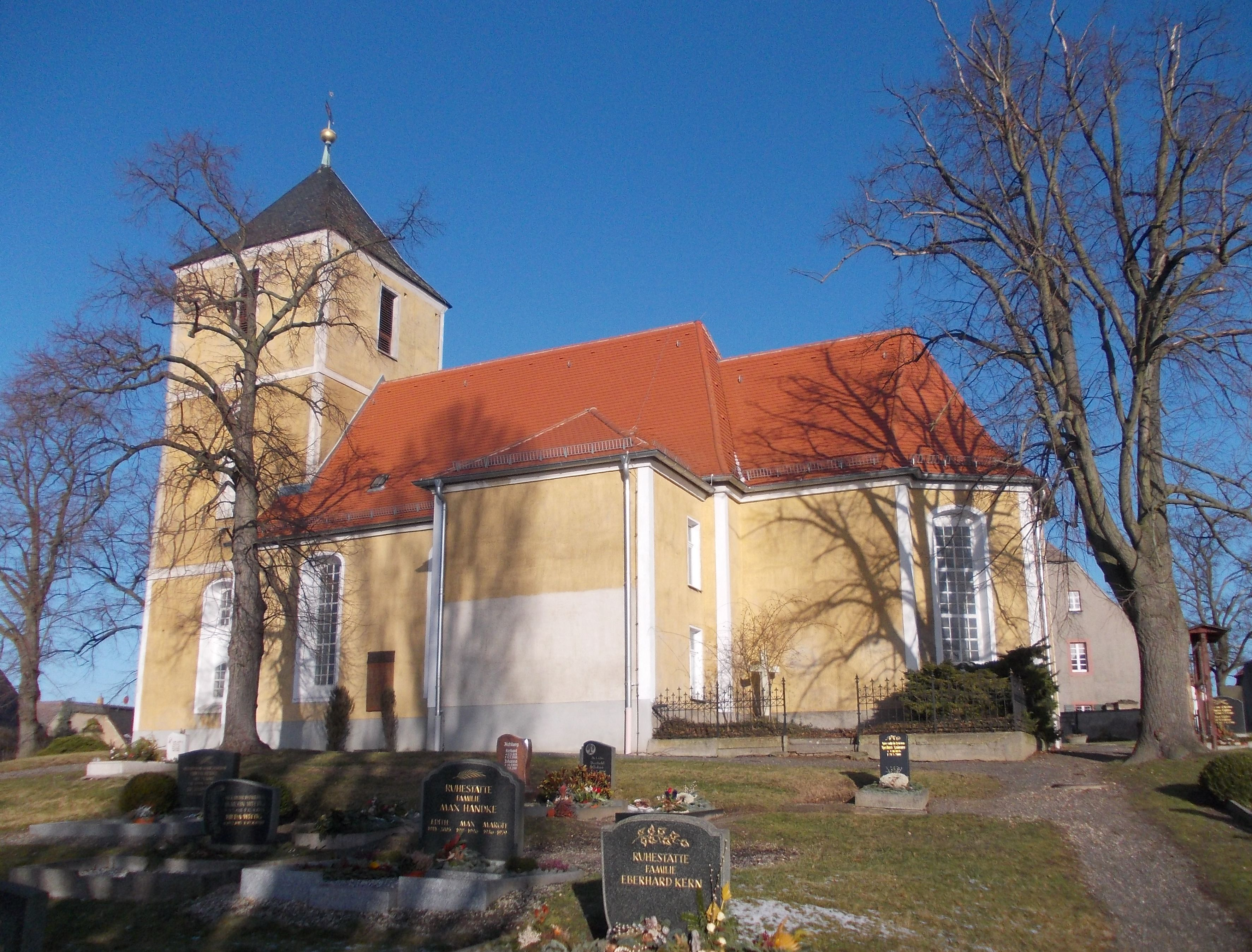 Polenz church (Brandis, Leipzig district, Saxony)